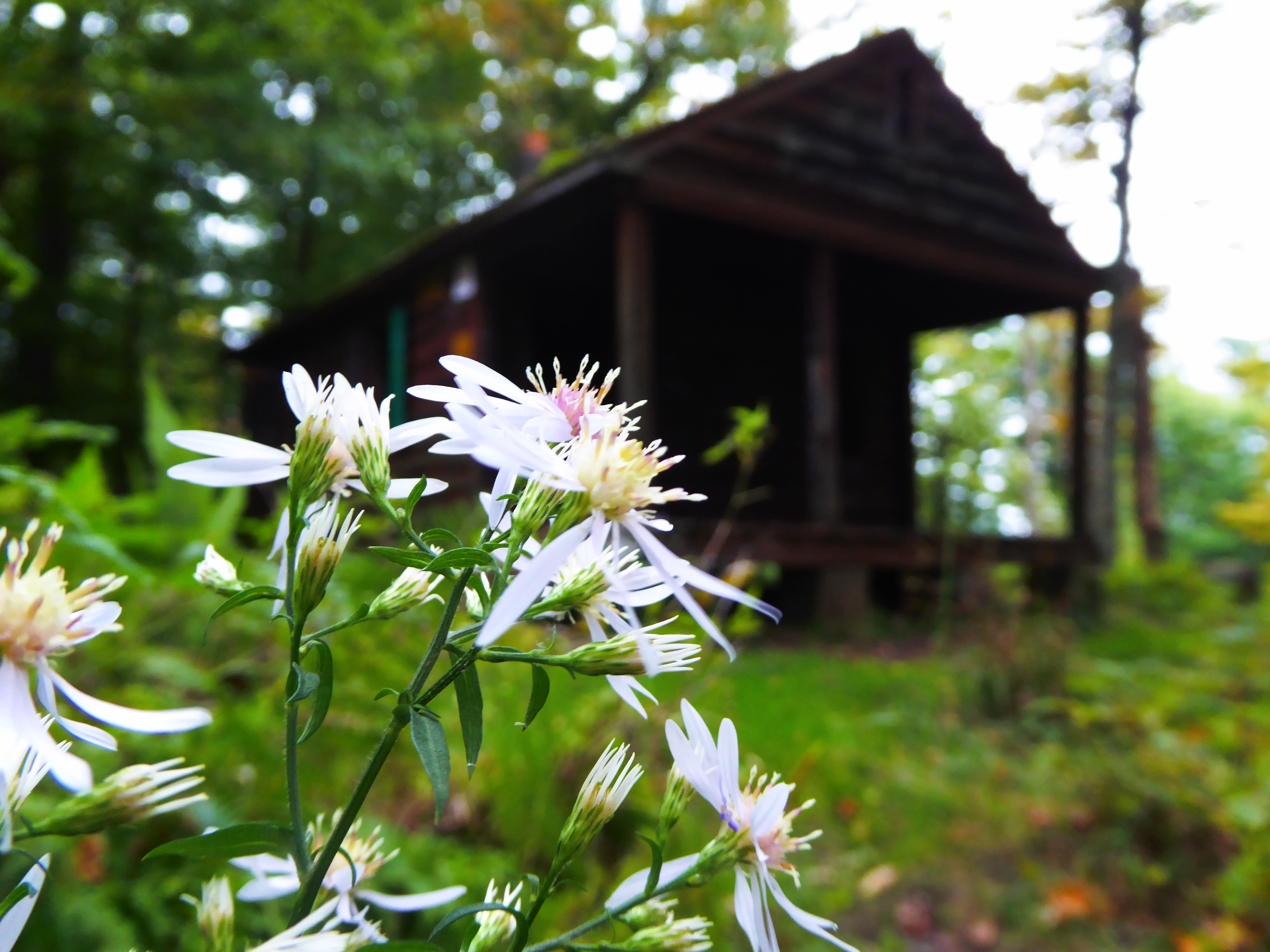 Kane Mountain Fire Observation Station, Kane Mountain Caroga